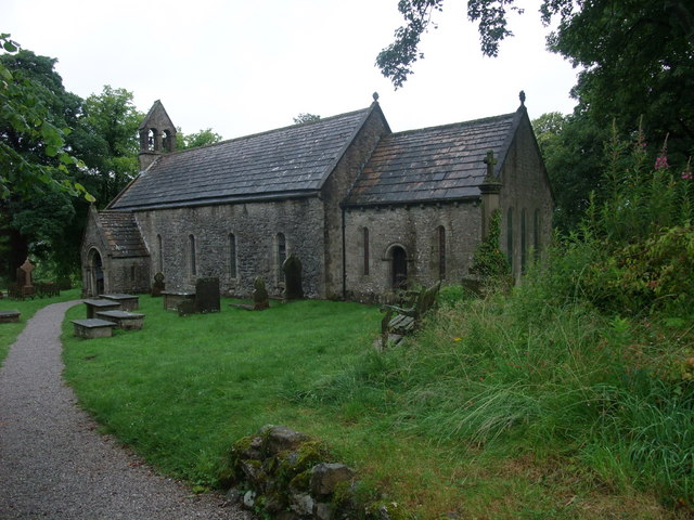 Church of St Mary, Conistone With possible pre-Norman features, may be the oldest building in the district.